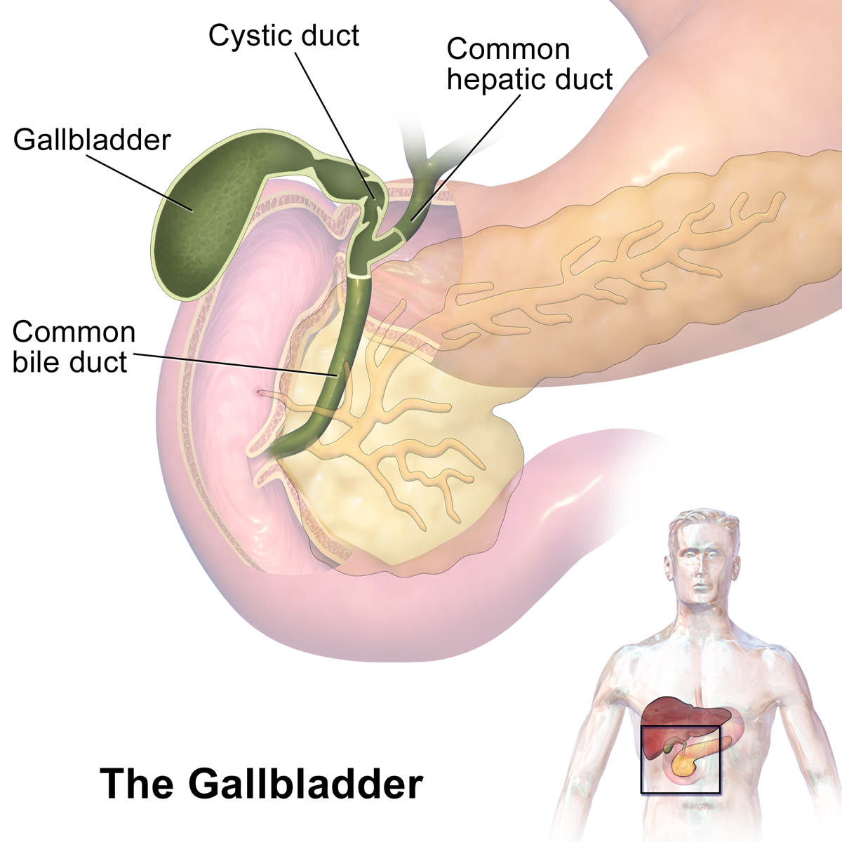 Gallbladder. See a full animation of this medical topic.